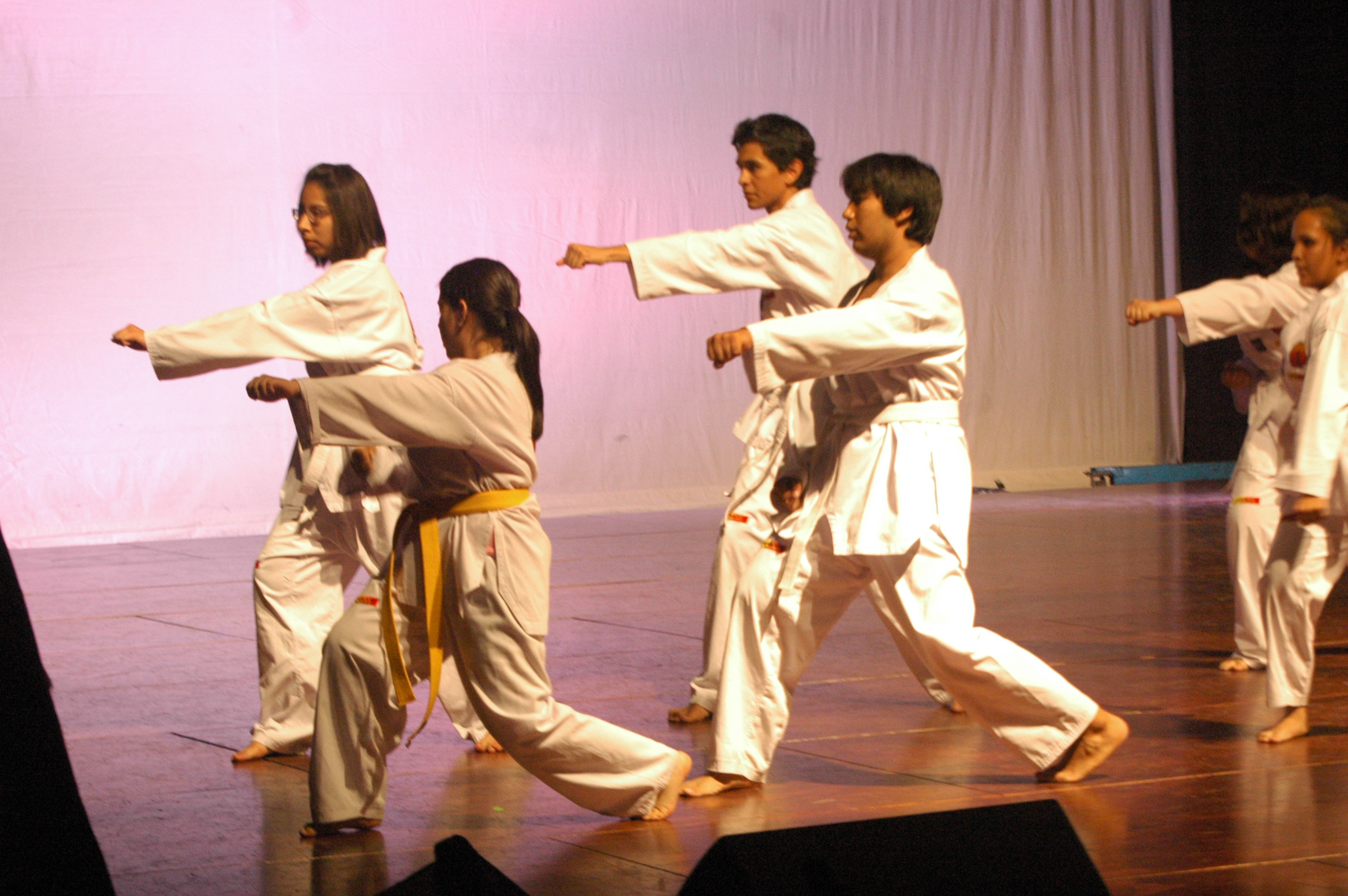 Tae Kwon Do demonstration while the event of the Culture Week in the ITESM Campus Ciudad de Mexico